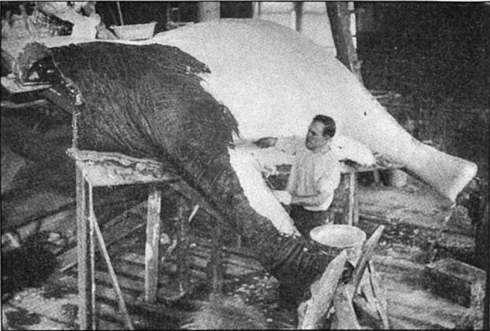 Carl Akeley is applying plaster of paris on elephant's skin